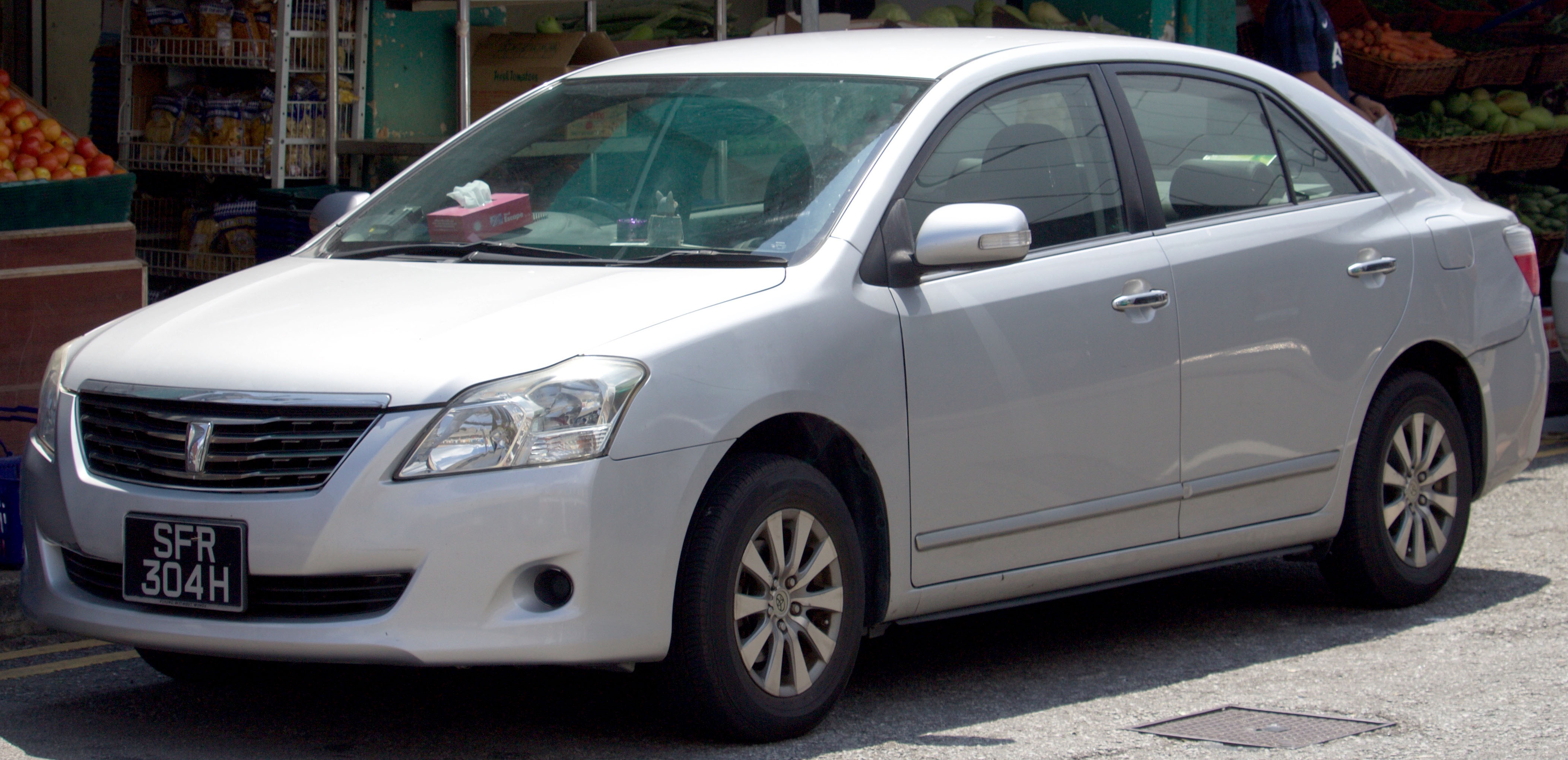 2008 Toyota Premio (NZT260) 1.5F sedan. Photographed in Singapore. Vehicle registration enquiry results Jurisdiction Singapore Registration SFR304H Chassis code NZT2603038392 Engine code 1NZD299781 Year of manufacture 2008